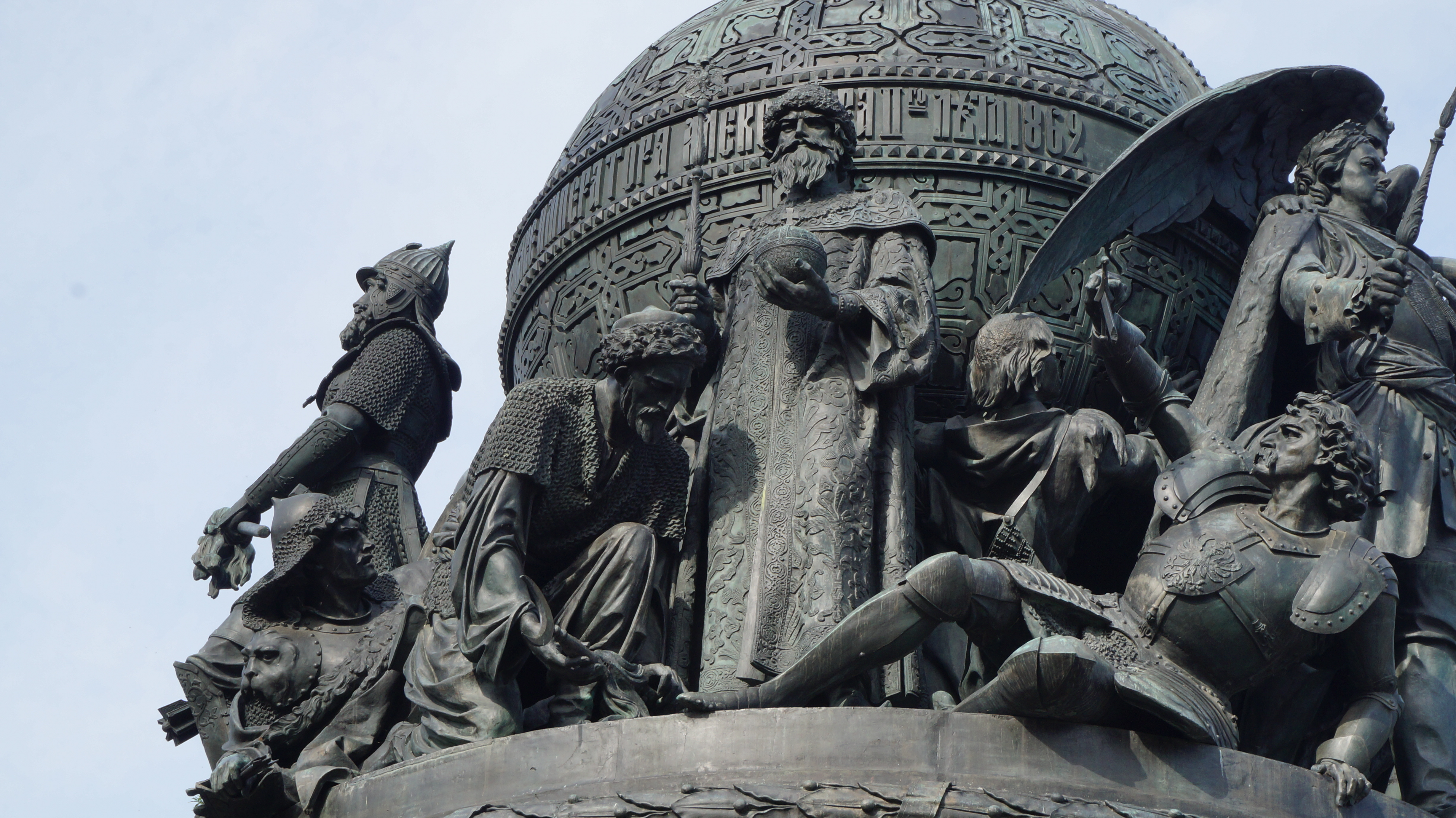 Ivan III of Russia on the Monument "Millennuim of Russia" in Veliky Novgorod. To his feet the defeated Lithuanian, Tatar and Baltic German.